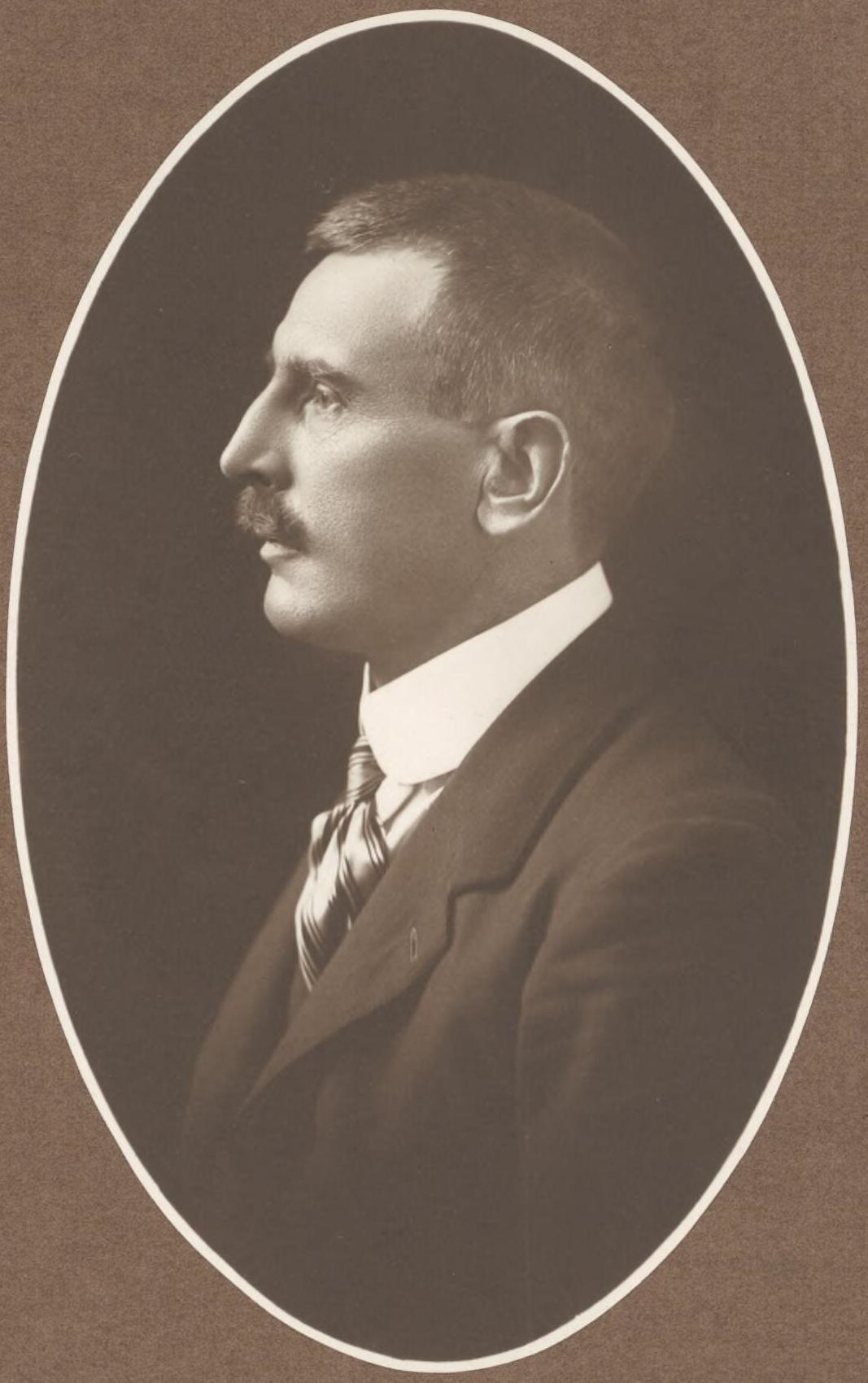 Profile portrait of Australian army officer and politician James Whiteside McCay